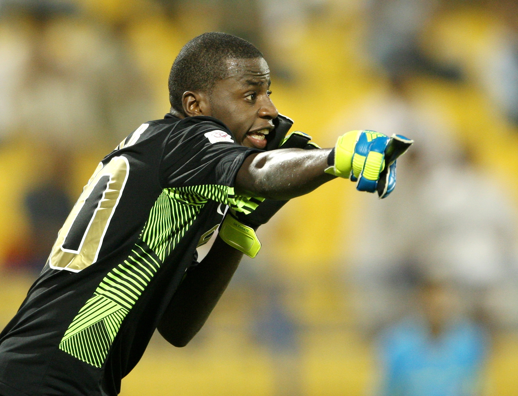 El Jeish goalkeeper Ivanildo Rodrigues shouts out instructions to his team-mates. Pic by Mohan